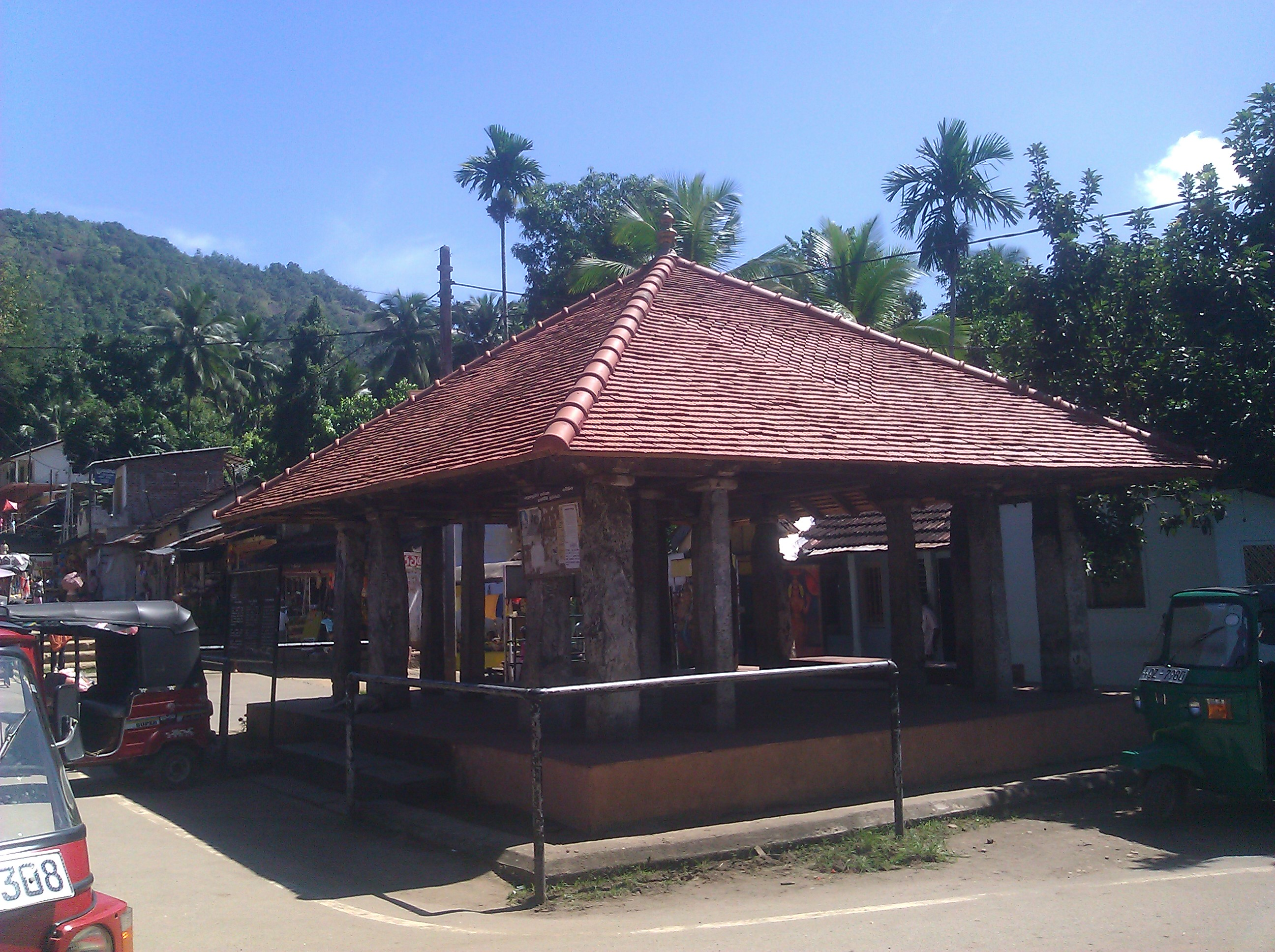 This Wayside Rest was built by Queen Sunetradevi chief consort of King Parakramabahu II (A.D 1236-1276) and mother of King Bhuvanekabahu I.The pillars remaining at the site are supposed to be belonging to the period of King Bhuvanekabahu I.It has been conserved by the Archaeological department at least three times.